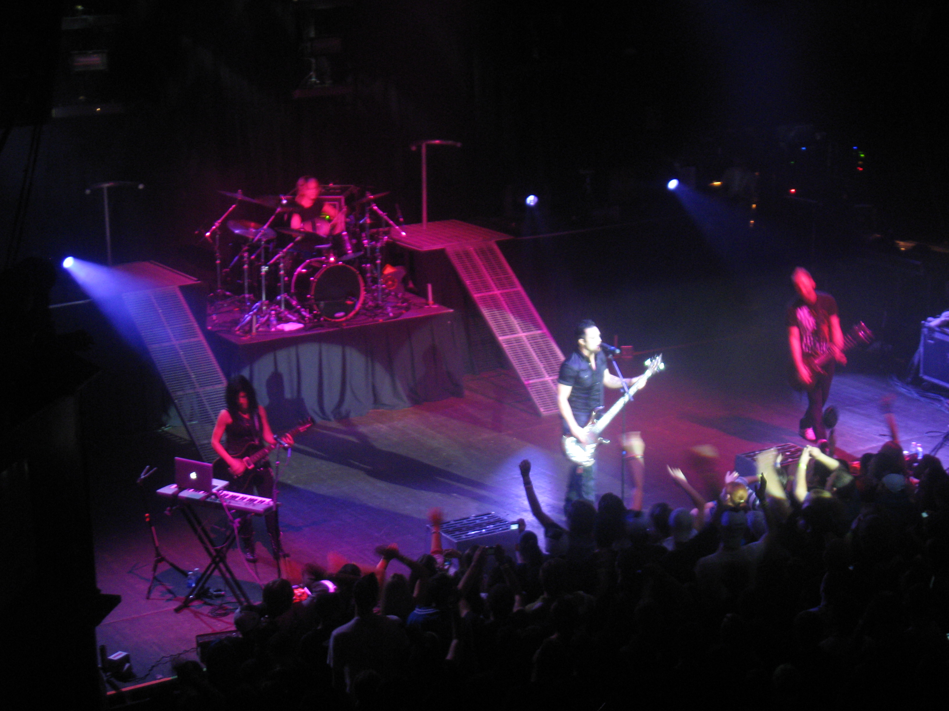 The band Skillet in concert